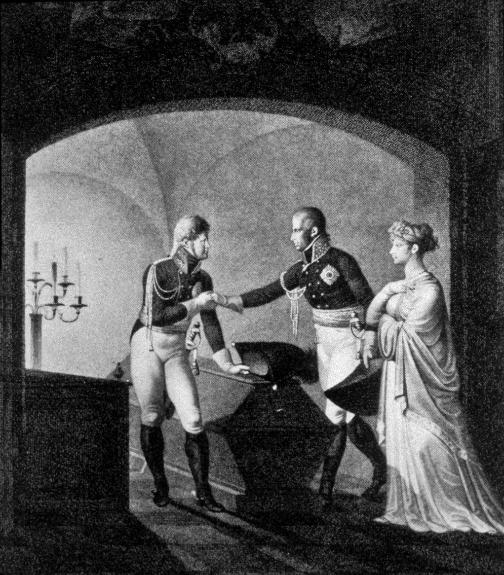 King Friedrich Wilhelm III and Queen Luise of Prussia with Czar Alexander at the sarcophagus of Friedrich II.